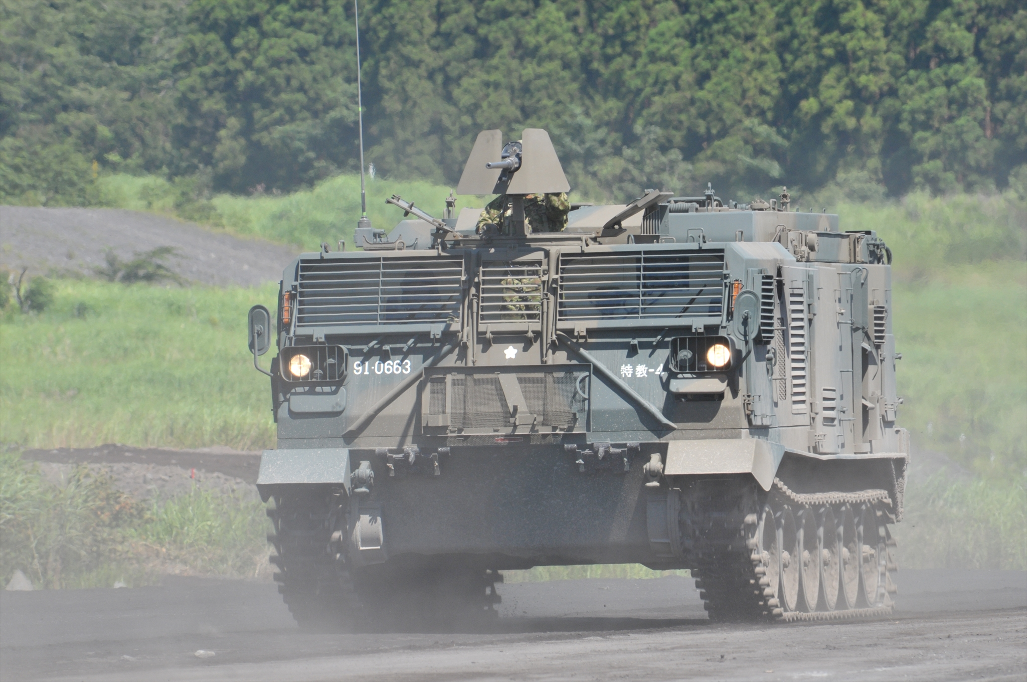 Title ８７式砲側弾薬車 23_02_005.JPG Album 装備 ８７式砲側弾薬車（富士総合火力演習）